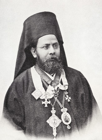 Fotios, Patriarch of Alexandria